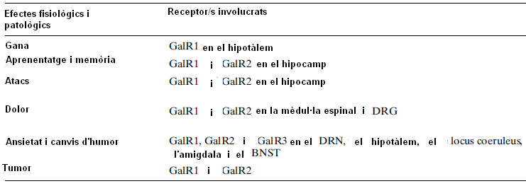 taula2galanin